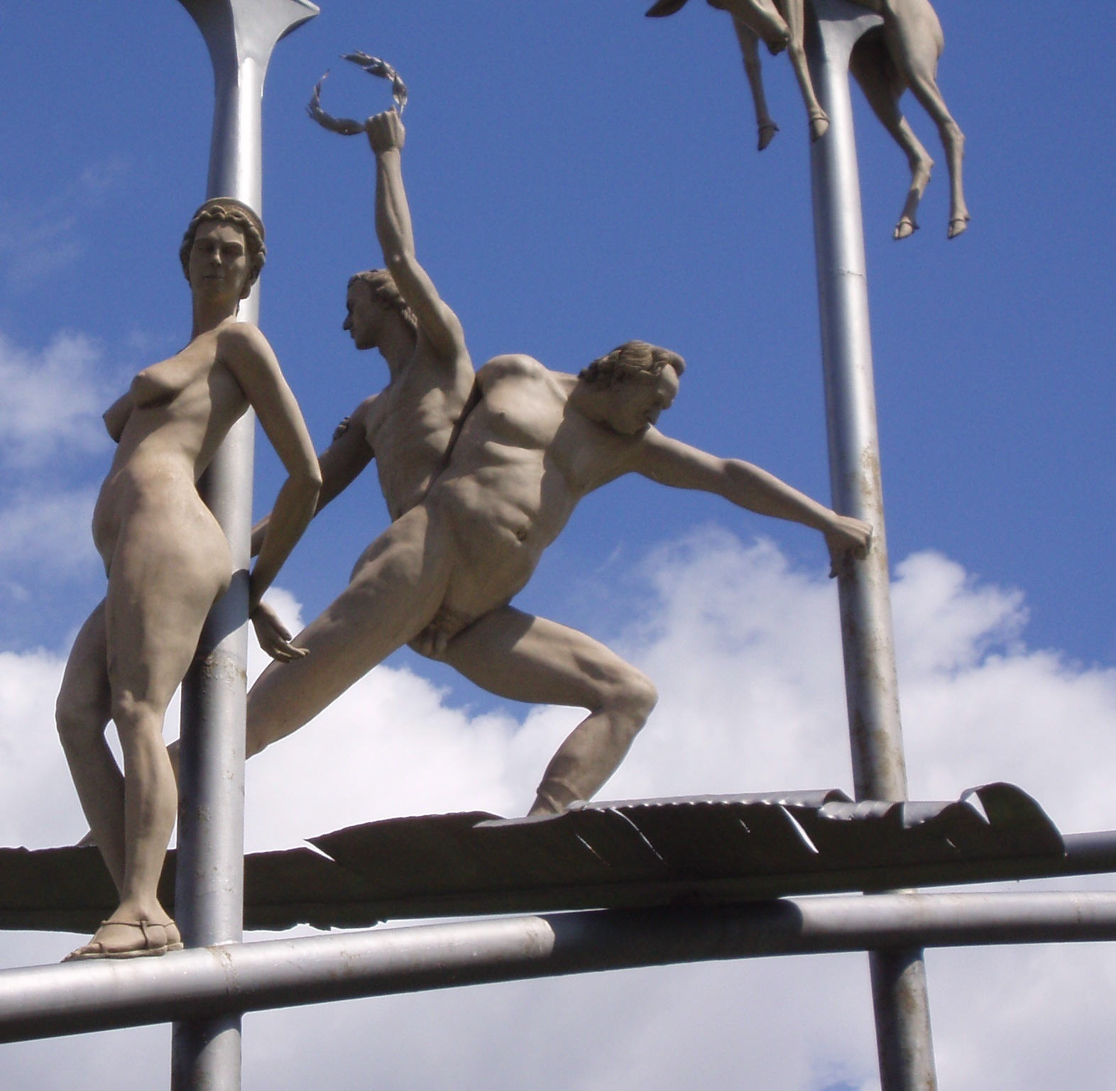 Peter Lenk, Hölderlin im Kreisverkehr